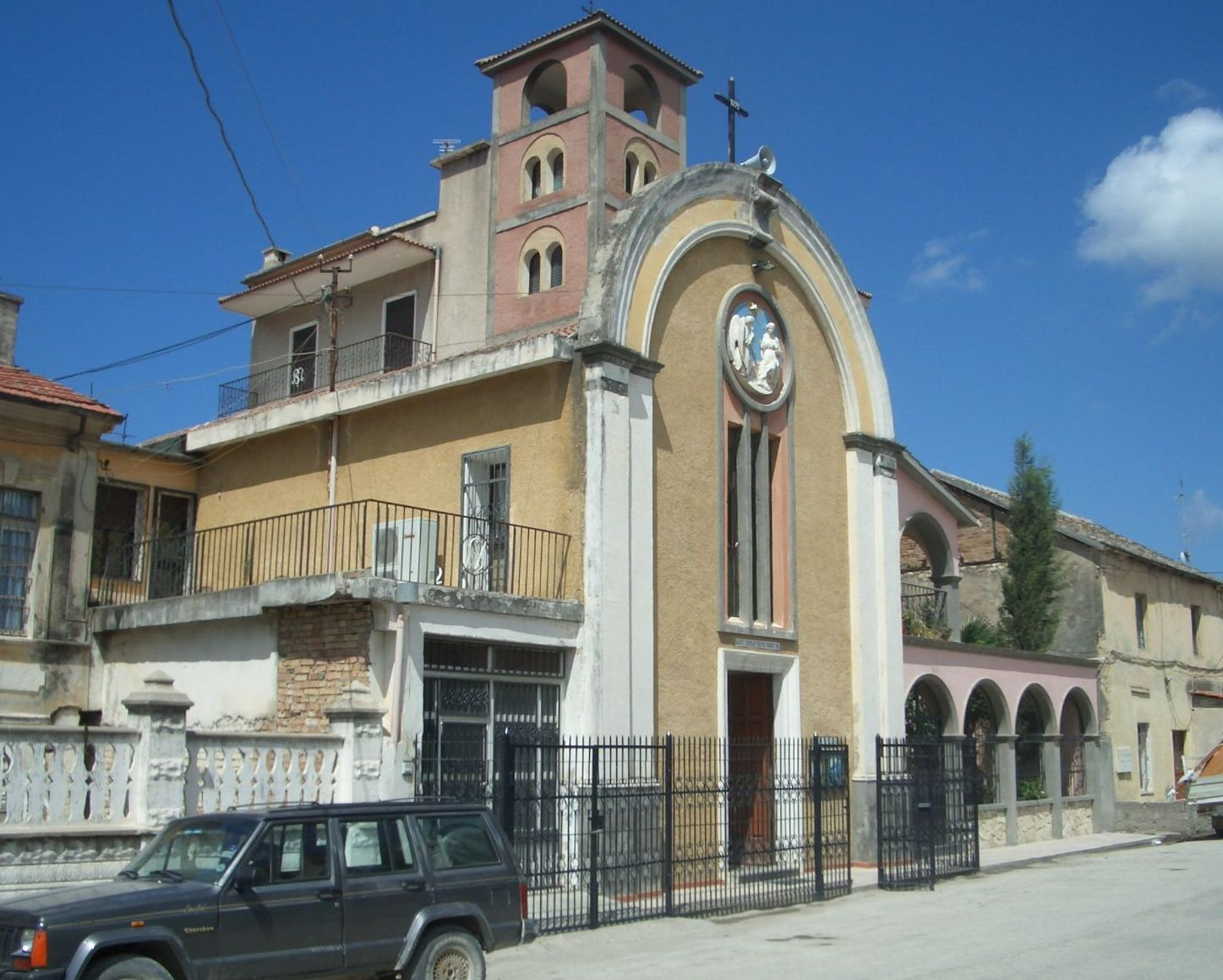 catholic church in Vlora (Albania)